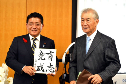 Tasuku Honjo, Deputy Director-General of the Institute for Advanced Study, Kyoto University, met Takuya Hirai, Minister of State for Science and Technology Policy, in Tōkyō Metropolis on October 11, 2018.